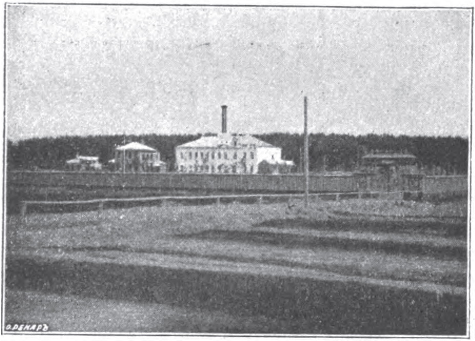 Korovin hospital at Vsekhsvyatskoe